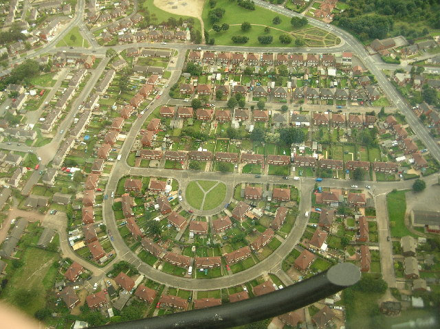 Hastings Crescent, Airedale (aerial) Flying over one of Castleford's large estates, I thought this made a very interesting photo, showing both the imaginative layout of the streets and the feeling of open spaces, even within the town. The Y-fronts design of the green in the centre only adds to the ambience I feel.